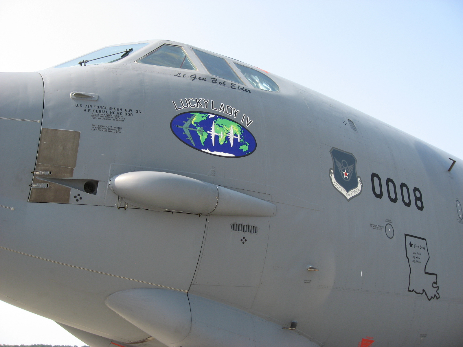 Nose art Lucky Lady IV on B-52H, 2008 Cherry Point Air Show.